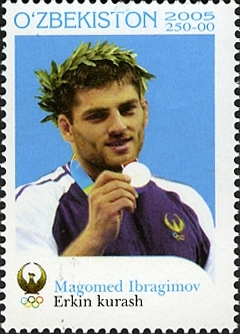 Stamps of Uzbekistan, 2006